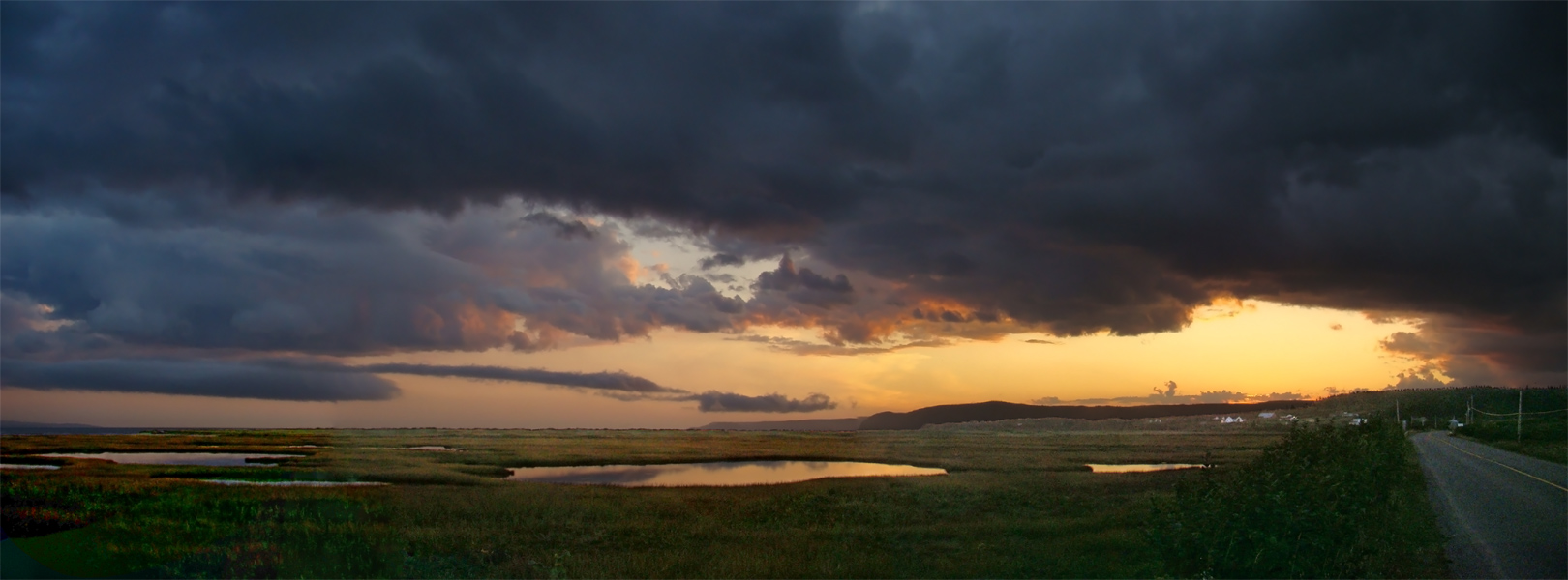 Sunset along the Fundy Coastal Drive Route 915, Bay of Fundy, New Brunswick, Canada.